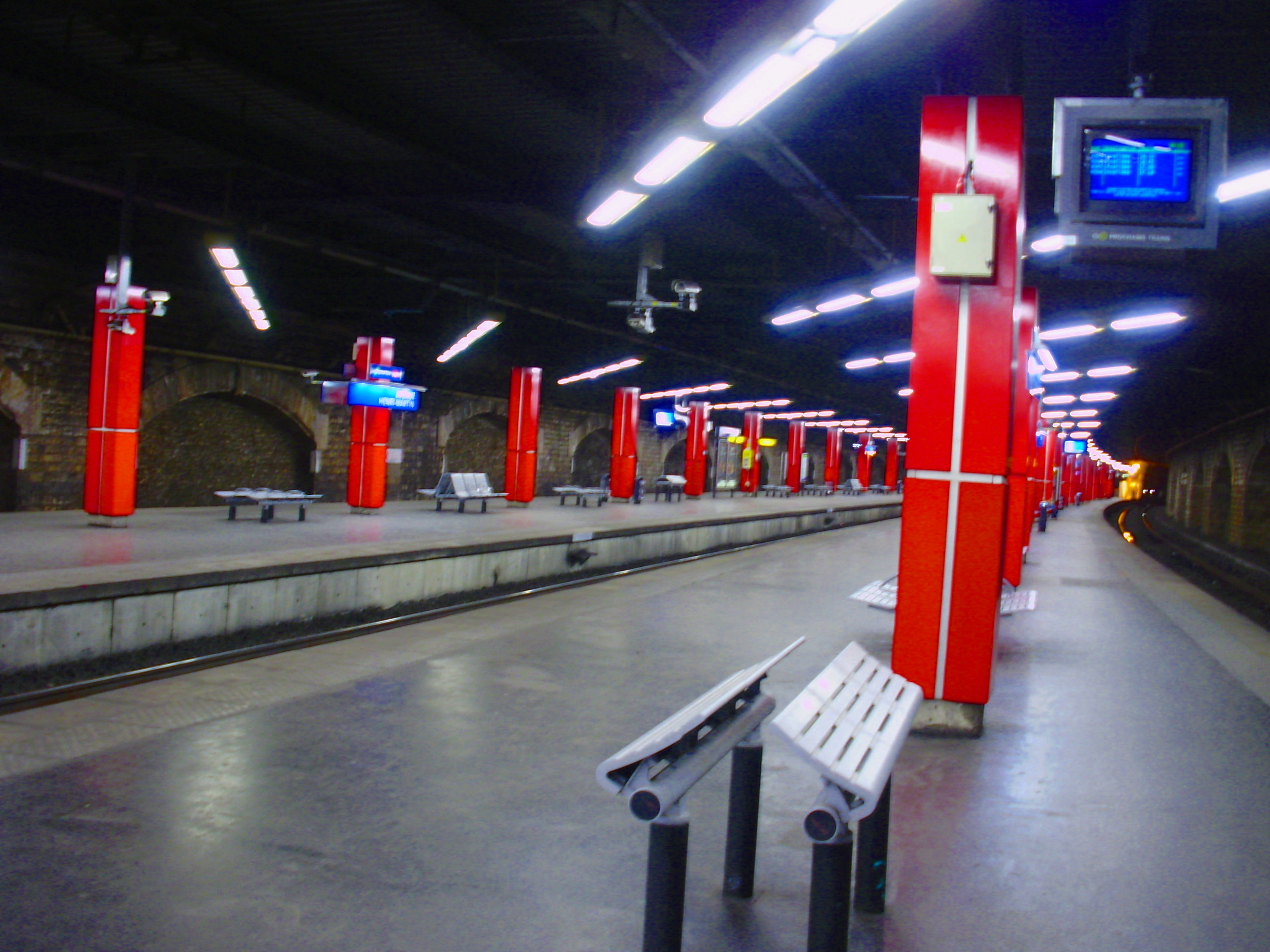 Avenue Henri Martin station, Paris 16e, France (general view of the platforms with, on the right, the track for trains coming from Avenue Foch station, in the north)